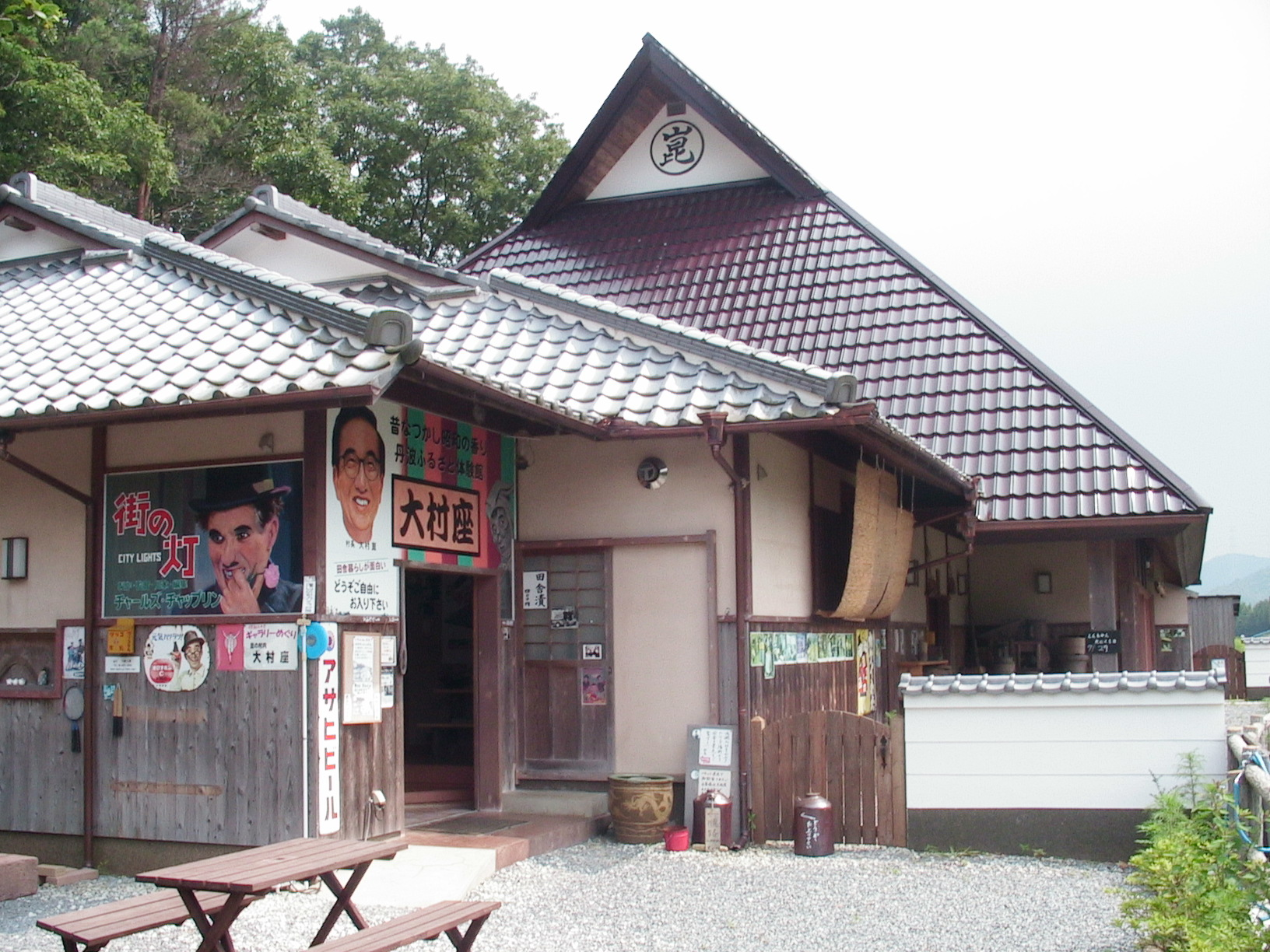 kon-no-mura